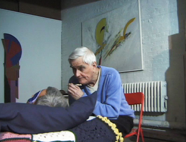 Hopkins in hypnosis session with "abductee" 2003